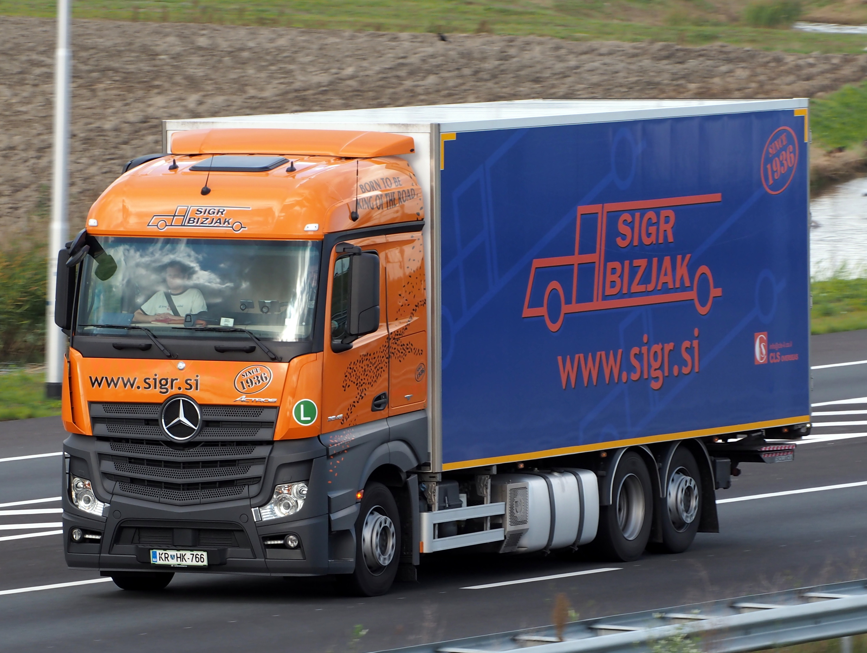 Photographed on the A4 motorway near Hoofddorp, The Netherlands.